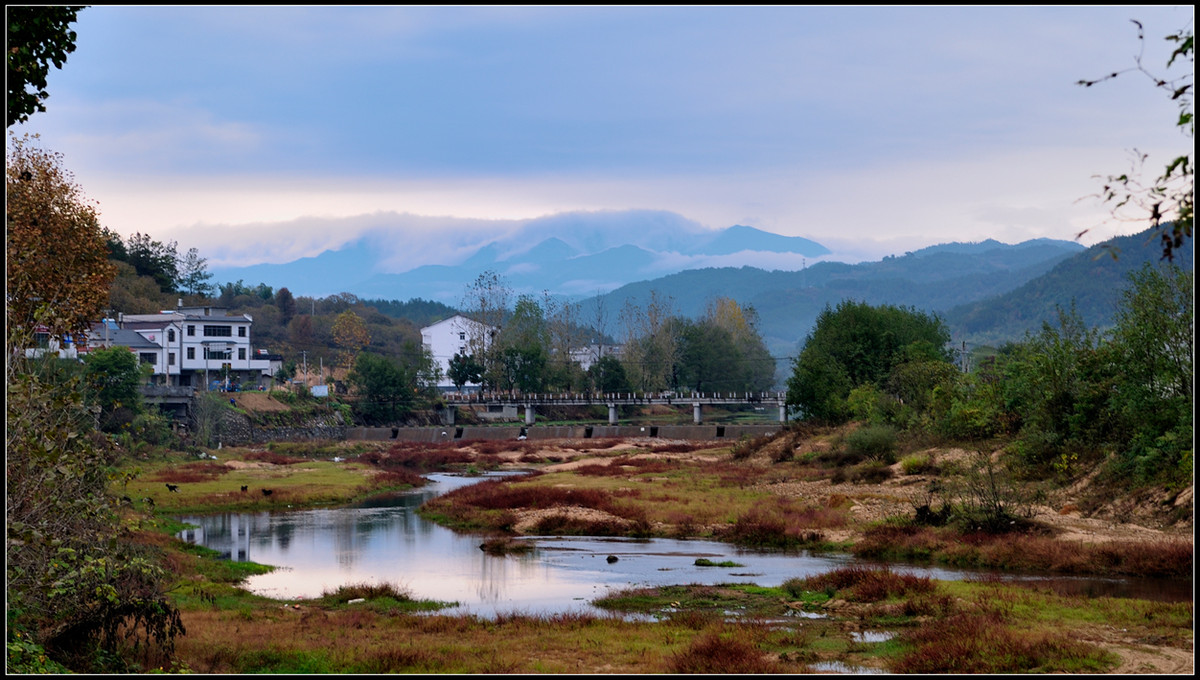 On the road to the town of Jiuzihe